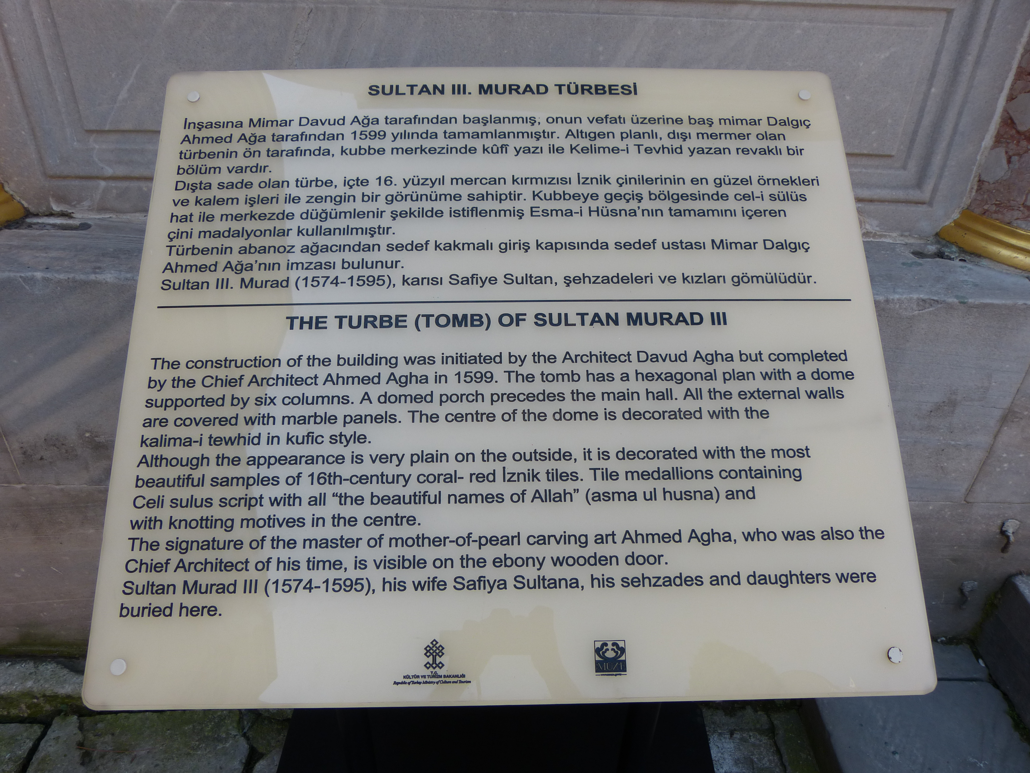 Türbe (Tomb) of Sultan Murad III